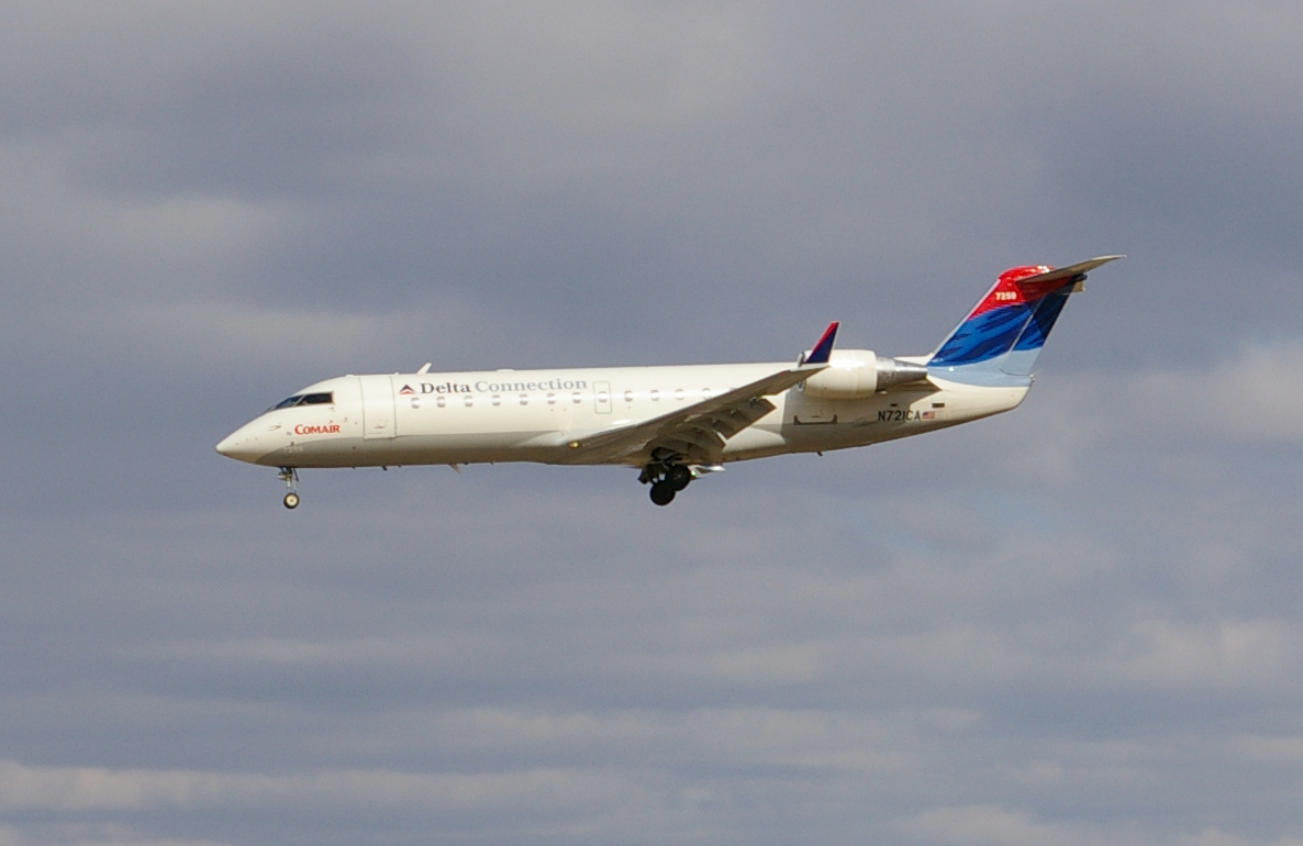 I took this photo of a Delta Connection Jet landing at Baltimore-Washington International Thurgood Marshall Airport on March 4, 2007 from the airplane observation area on airport grounds. This image is a crop of a photo taken with a Pentax K100D digital SLR camera. MamaGeek (talk/contrib) 16:45, 22 March 2007 (UTC)